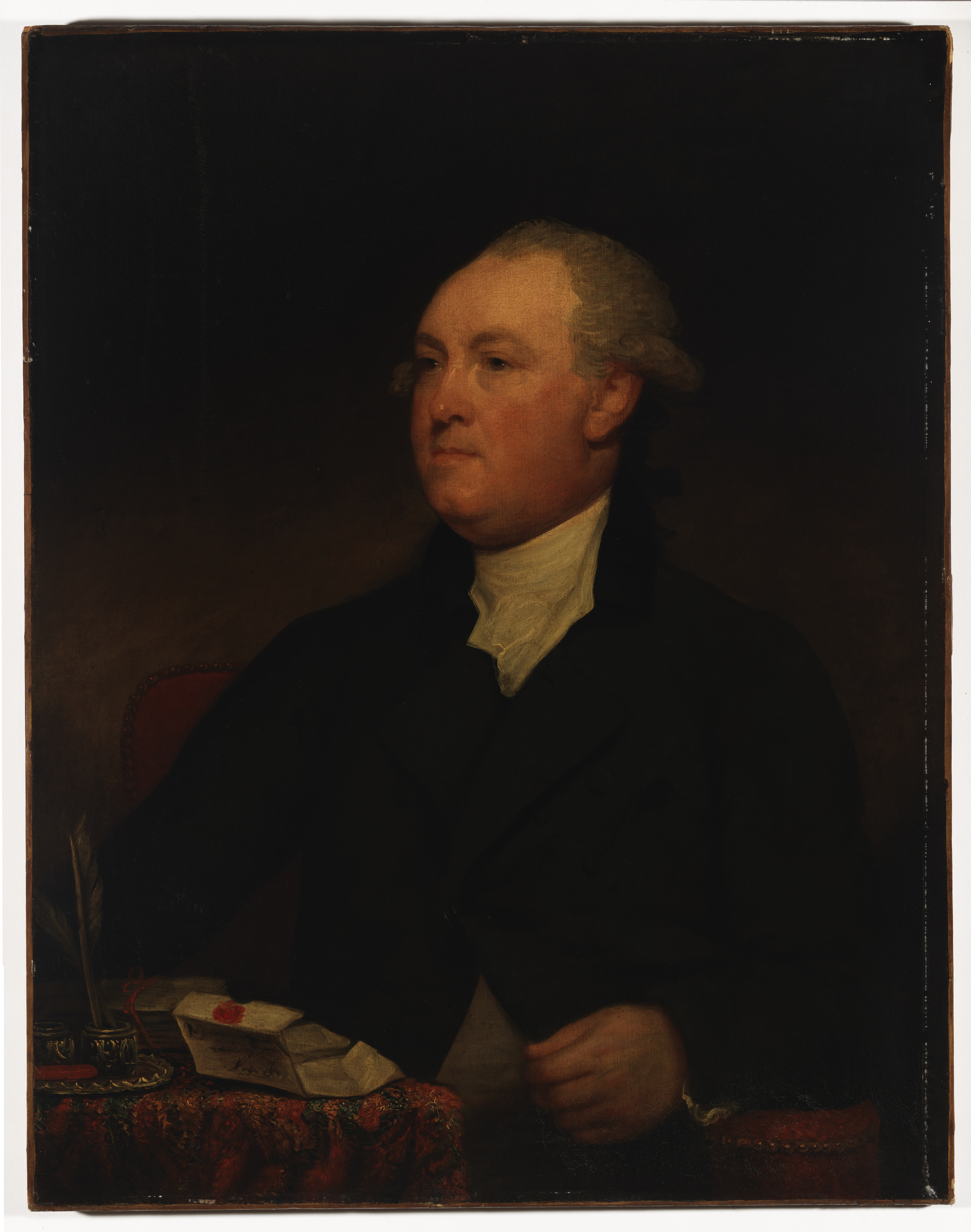 Portrait painting of Thomas Townshend, 1st Viscount Sydney (1732–1800) by the American painter Gilbert Stuart. The sitter is portrayed life-sizeed at half-length, seated in an armchair upholstered in red and studded with small brass-headed nails, his body is nearly full-front with the head and dark brown eyes turned three-quarters left. He wears a dark green coat with a collar of black velvet, his coat being buttoned across his chest, but opened below, showing a brownish-gray waistcoat. His stock and shirt ruffles are of white muslin and his wig or hair is powdered. His face is plump and his complexion "beefy," expressing mental and physical activity with a look of hauteur. He sits beside a table covered with a varicolored cloth in which is an inkstand, two quill pens, a tray with a piece of red sealing-wax, and a packet of letters, with one unfolded. On the latter the word "London" can be deciphered. His left arm rests upon the chair arm and the left hand, partially closed, is shown, but the right hand is concealed by the table. The background is plain and of warm brownish tones.